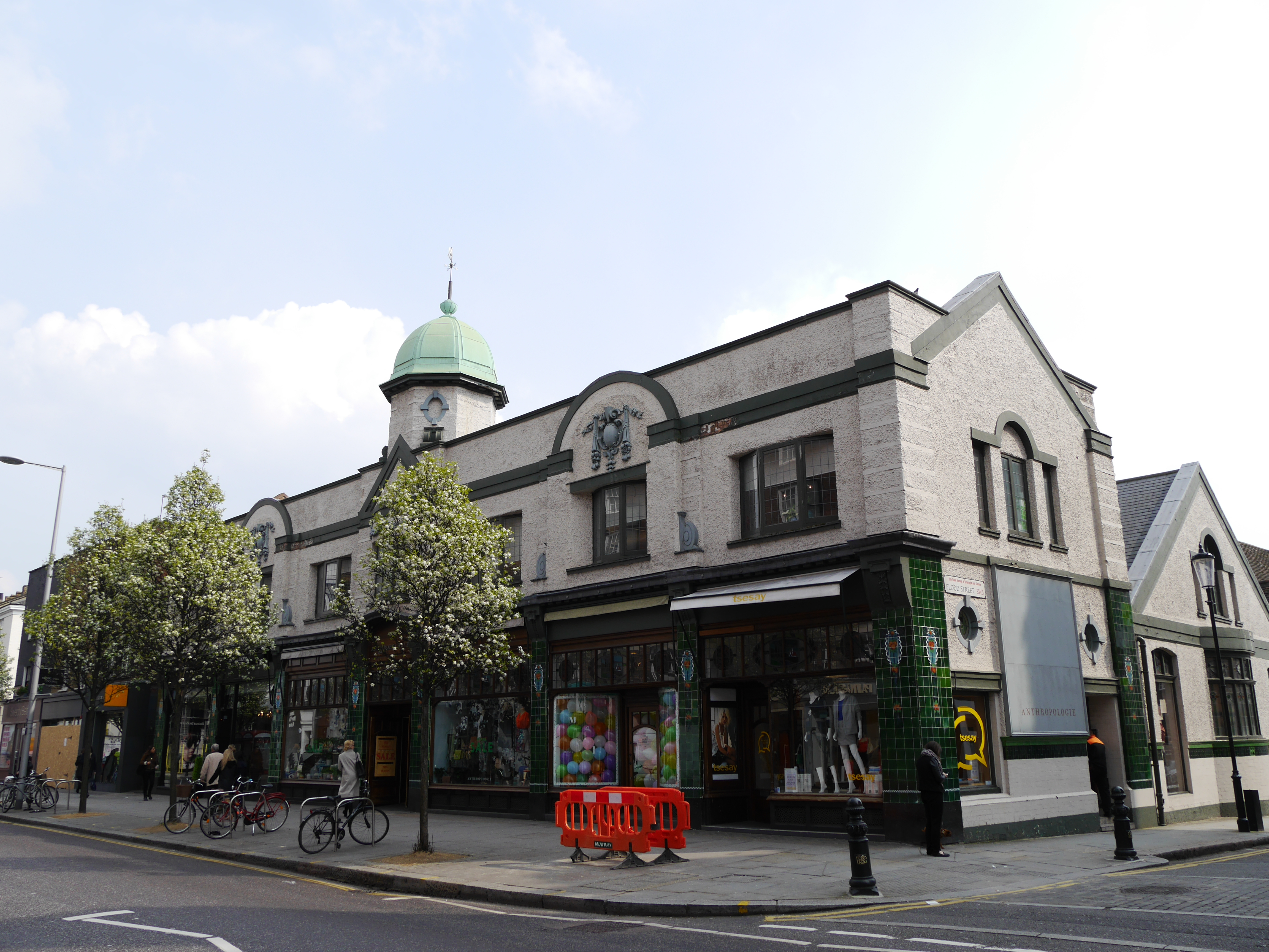 Temperance Billiard Hall, 131-141 King's Road, Chelsea, London SW3